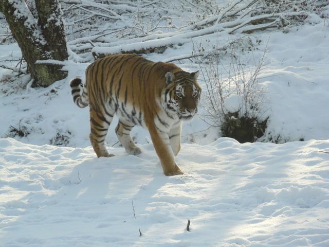 Amur Tiger at Highland Wildlife Park No strangers to snow: the Amur Tigers are from Russia. There are only about 450 left in the wild, and actually more than that in captivity. Highland Wildlife Park has recently acquired two, a breeding pair.